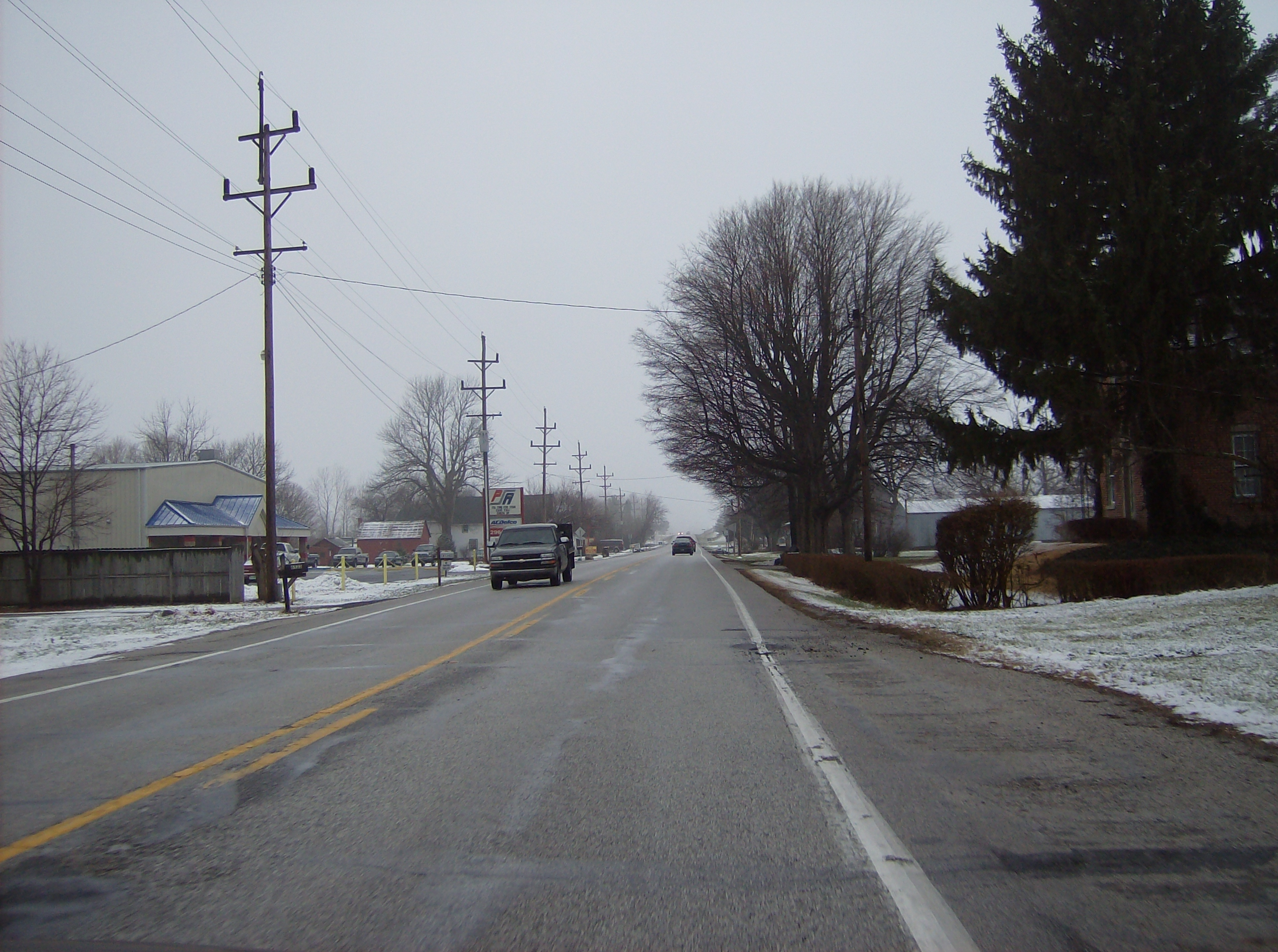 Along westbound State Road 26 at Edna Mills, an unincorporated community in northwestern Ross Township, Clinton County, Indiana, United States.